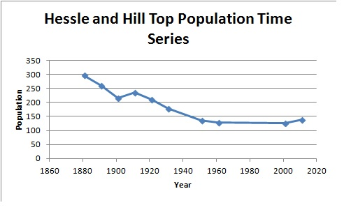 A time series graph showing the poulation change of the parish Hessle and Hill top from 1891 to 2011